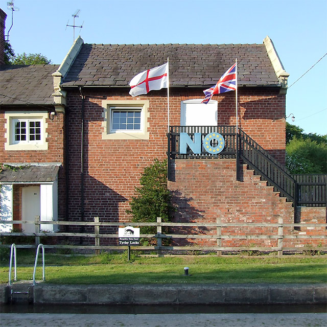 Canal buildings at Tyrley Wharf, Staffordshire The buildings by the top lock at Tyrley on the Shropshire Union Canal are dated 1837 and 1840 (very soon after the completion of the canal in 1835, engineered by Thomas Telford) and are now converted into residential properties. Enthusiasm for government from Brussels has been very limited here for several years.